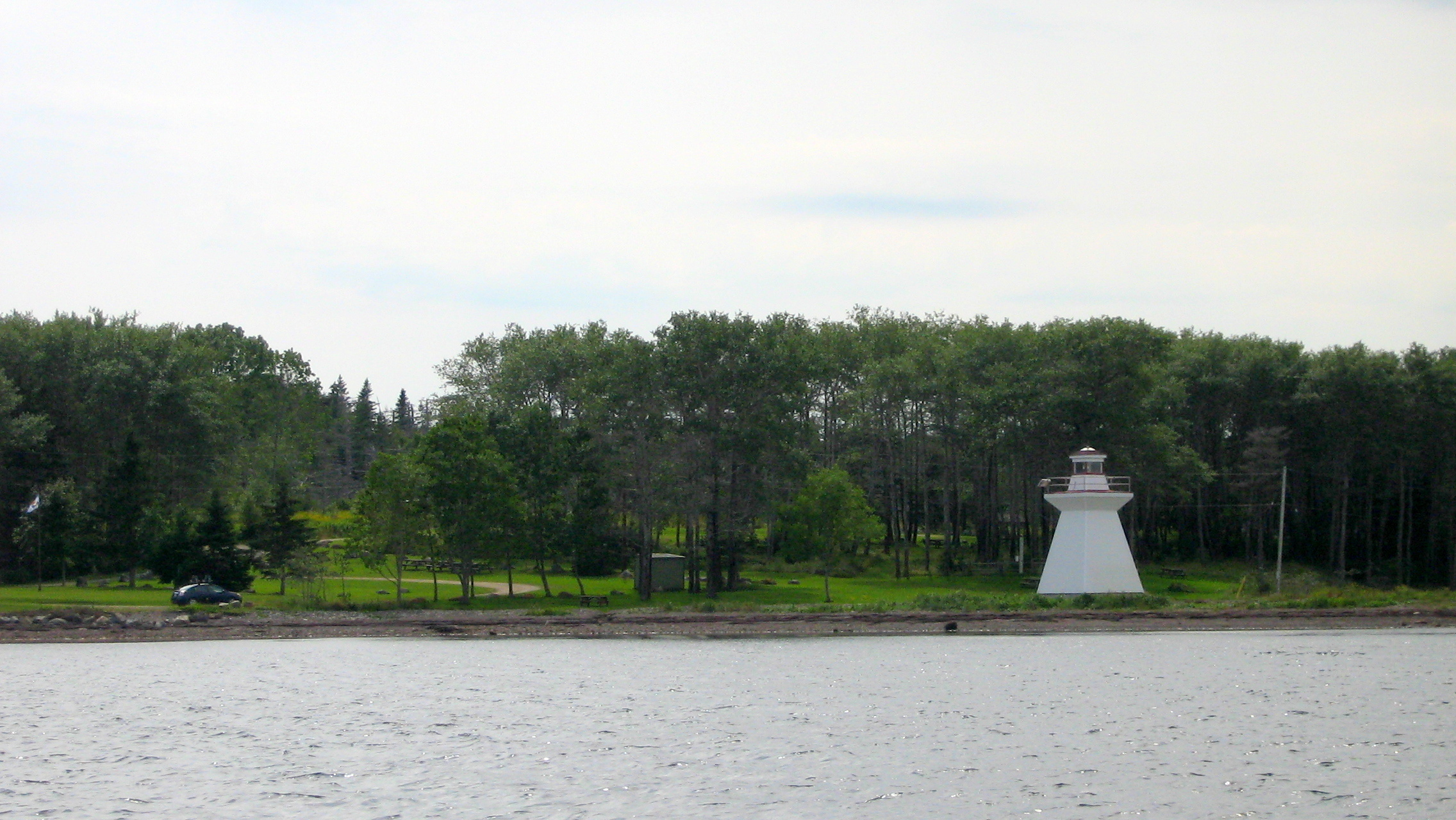 Lennox Passage Provincial Park is a small picnic and beach park on the shores of Lennox Passage (waterway) on the North Shore of Isle Madame on Cape Breton Island with 2 kilometres (1.2 mi) of shoreline, an operating lighthouse and site of a former post office (c.1910), ferry terminal and two limestone quarries. Visitors can picnic at tables scattered through a forest and open areas, enjoy the 2 kilometres (1.2 mi) of trails, or explore the working lighthouse. In summer the park offers swimming, kayaking, and biking opportunities. There are snowshoeing and cross-country skiing opportunities in the winter, however parking is available at the gate only in the off season. Located on Hwy 320, 5 kilometres (3.1 mi) east of the junction of Routes 320 and 206. Lennox Passage Provincial Park was established by Order in Council (OIC 85-227) on March 12, 1985.